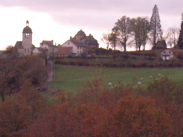 Mourjou village seen from Jalenques on automn evening.